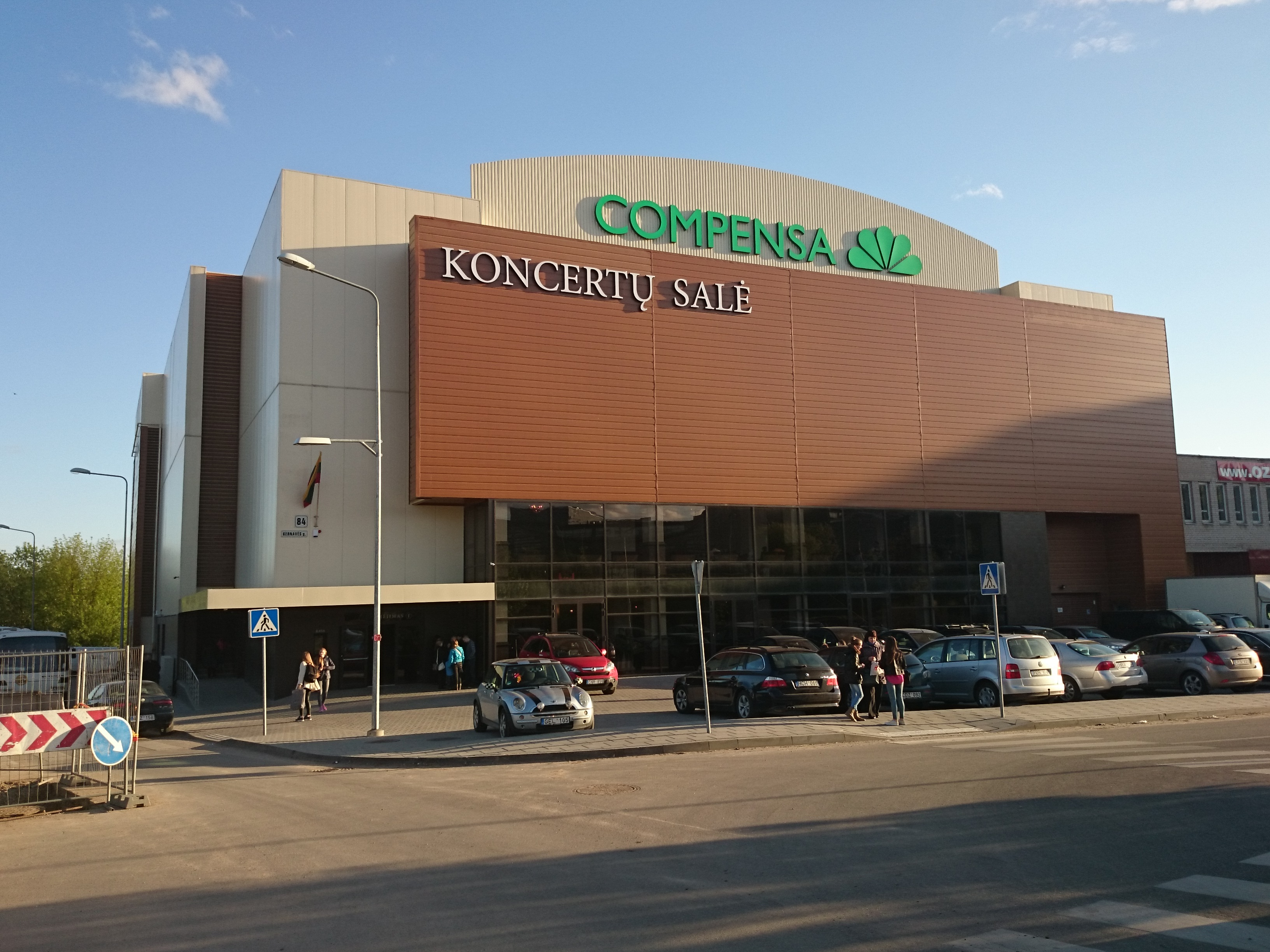 Compensa koncertų salė